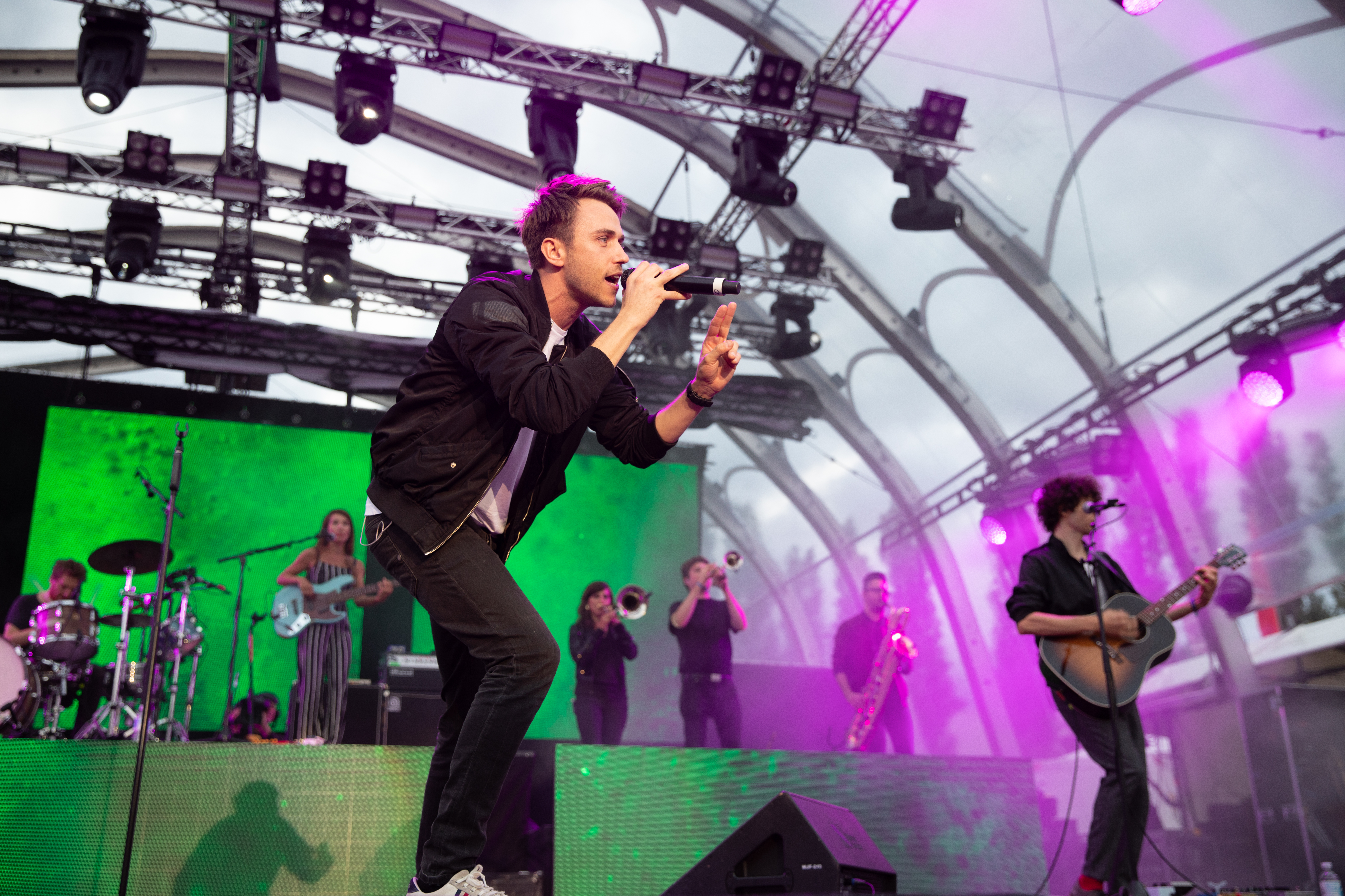 Clueso at Fritz DeutschPoeten 2018